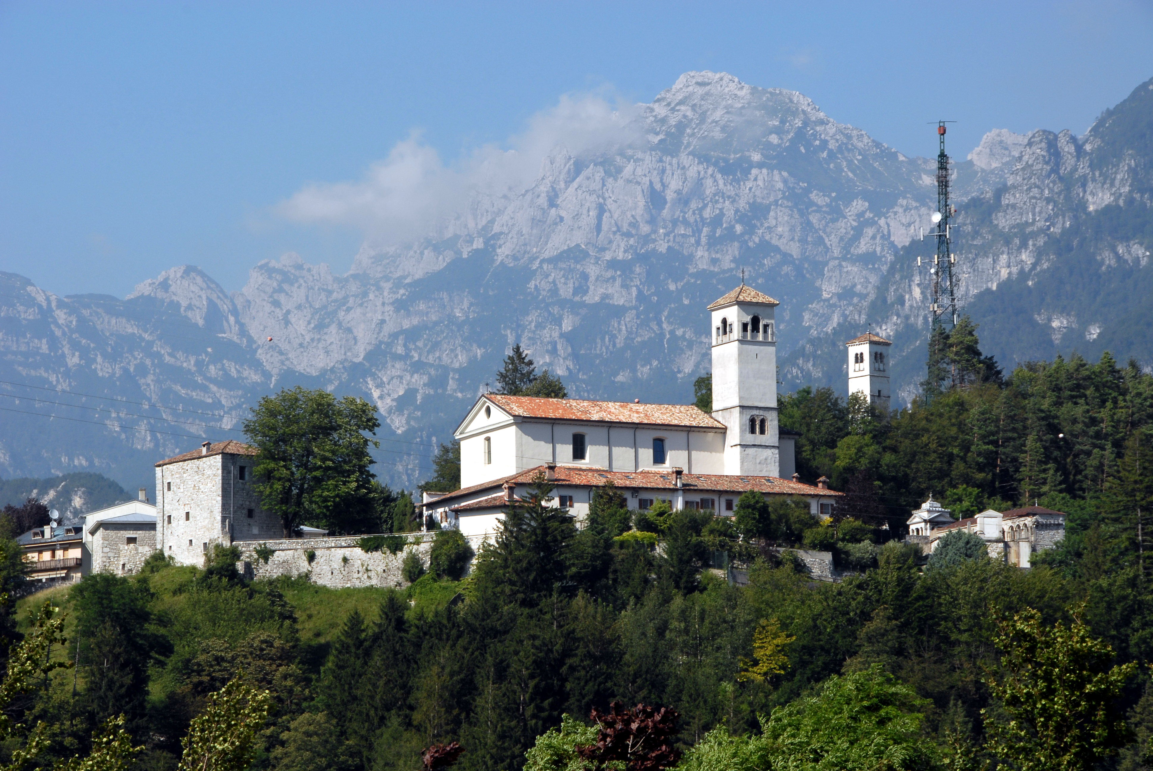 Abbey of San Gallo in Moggio Udinese in Canal del Ferro Canal del Ferro, region Friuli-Venezia Giulia, Italy, EU